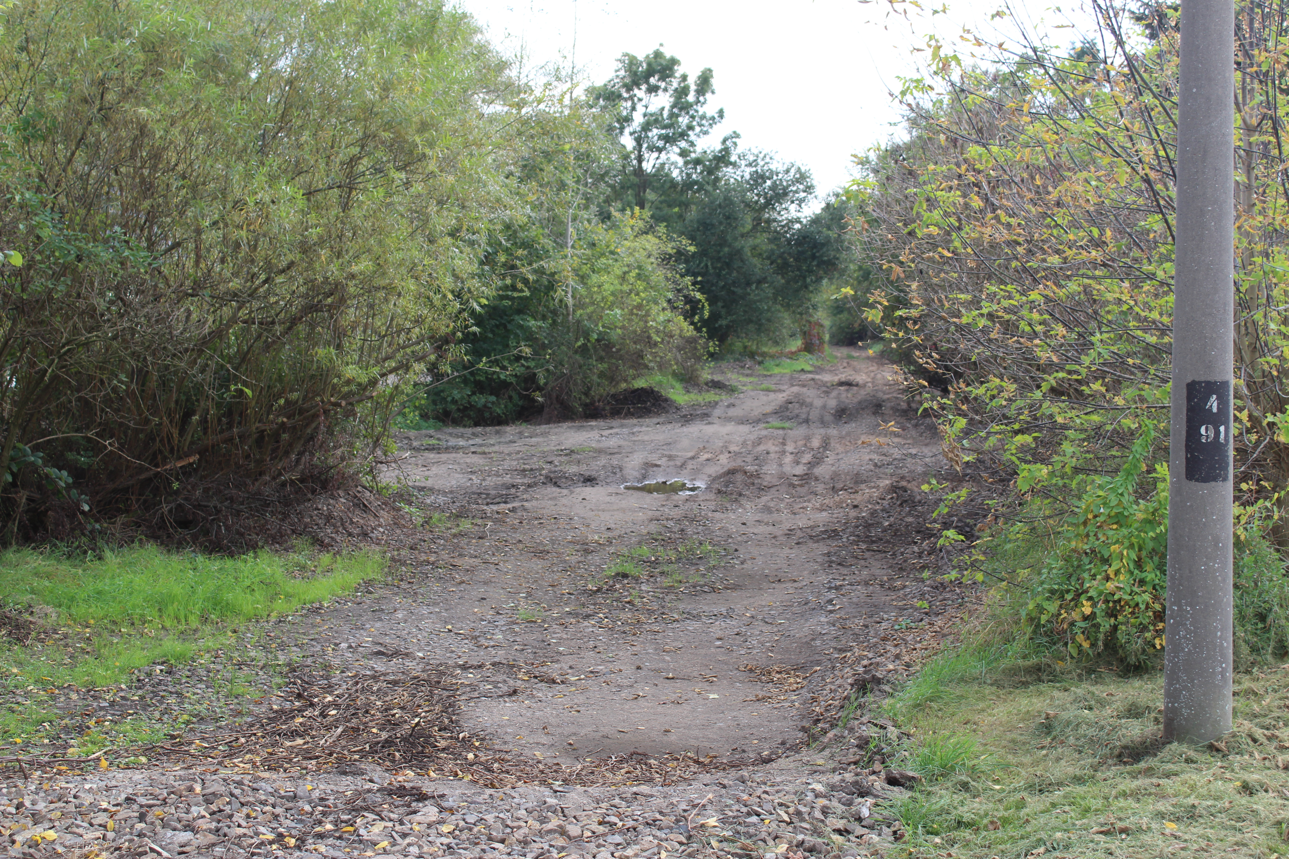 train station Küstrin-Kietz, former rails to Frankfurt